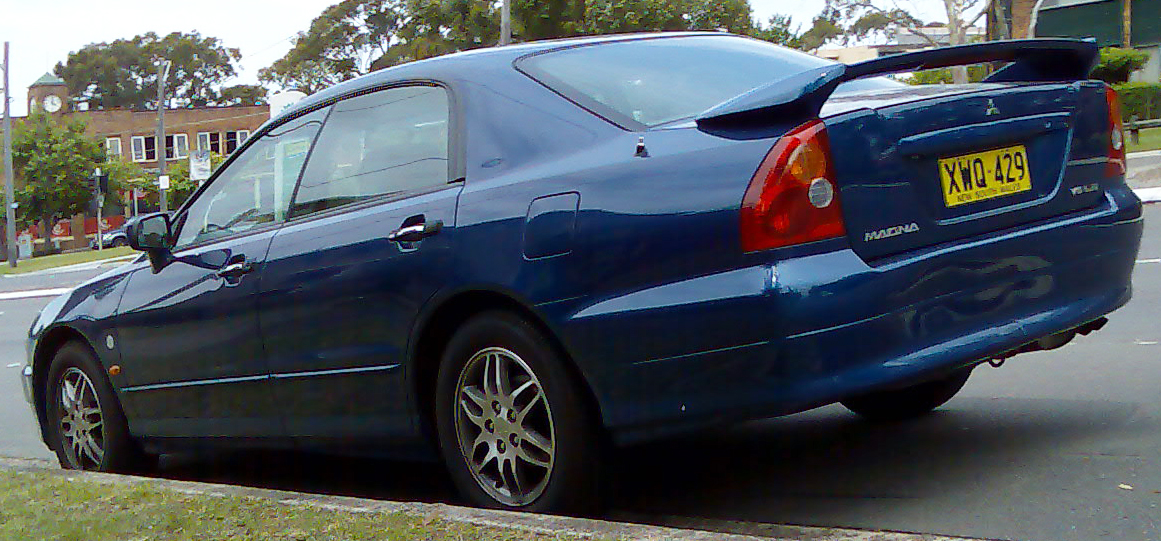 2002 Mitsubishi Magna (TJ MY02) Commonwealth Games Edition sedan. Photographed in Gymea, New South Wales, Australia.